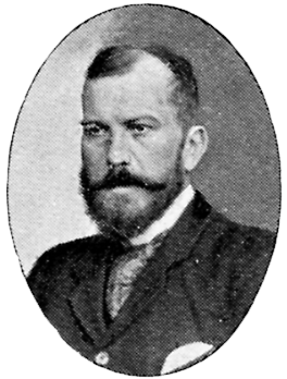 Image scanned from the book "Svenskt Porträttgalleri XX - Arkitekter, Bildhuggare, Målare m.fl. " ("Swedish Portrait Gallery XX - Architects, Sculptors, Painters, ") published 1901